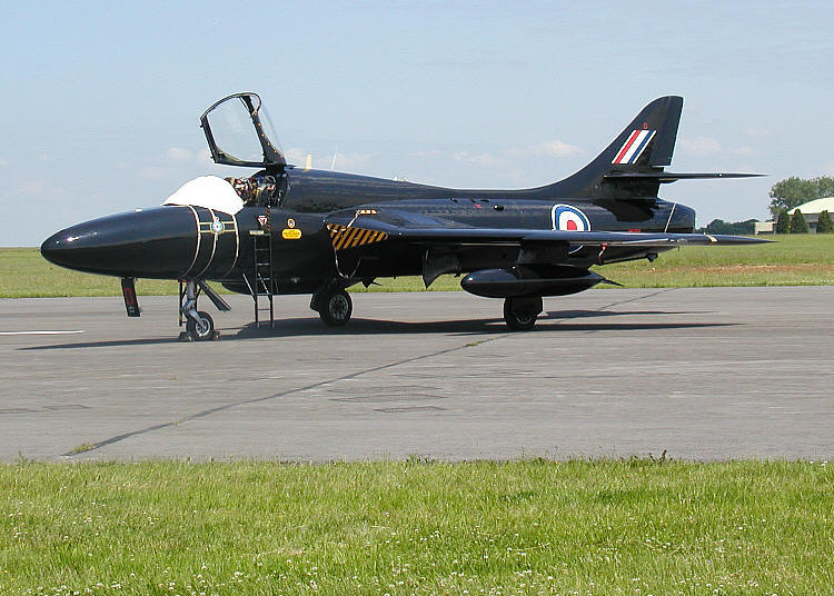 A privately-owned Hawker Hunter, photographed at the Classic-Jet Air Show, Kemble, England, in June 2003. The cockpit glazing has a white cover on it.